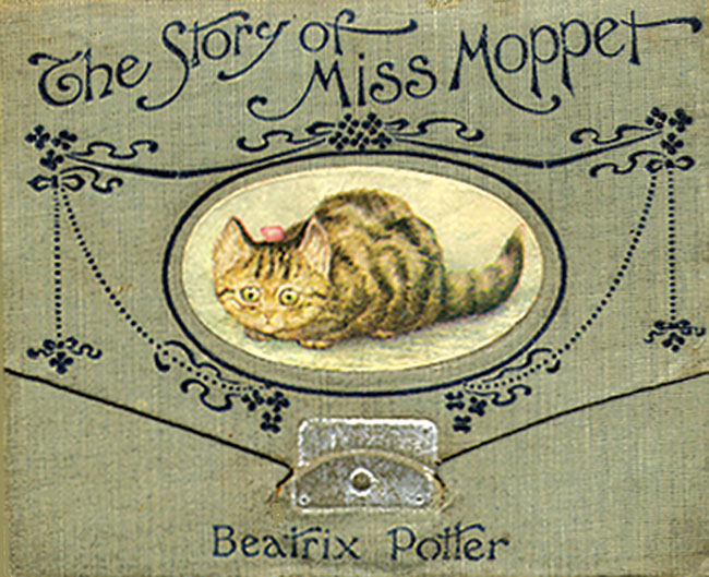 Cover of the first edition of The Story of Miss Moppet in wallet panorama format